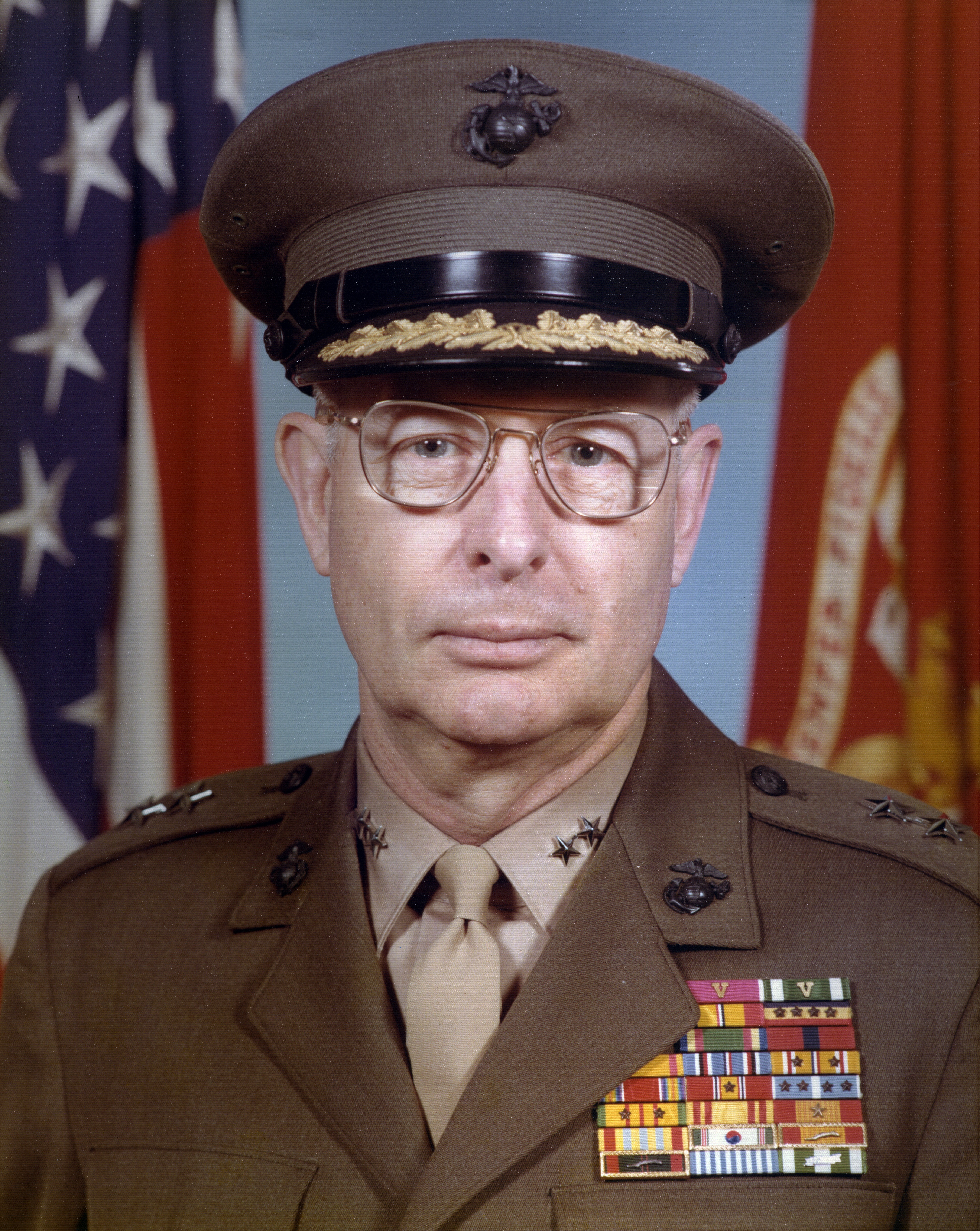 Herbert Lloyd Wilkerson (born October 31, 1919) is a decorated officer in the United States Marine Corps with the rank of Major General. A veteran of three wars, he is most noted for his service as Commanding officer, 1st Marine Regiment during Vietnam War and later as Commanding general, 3rd Marine Division.